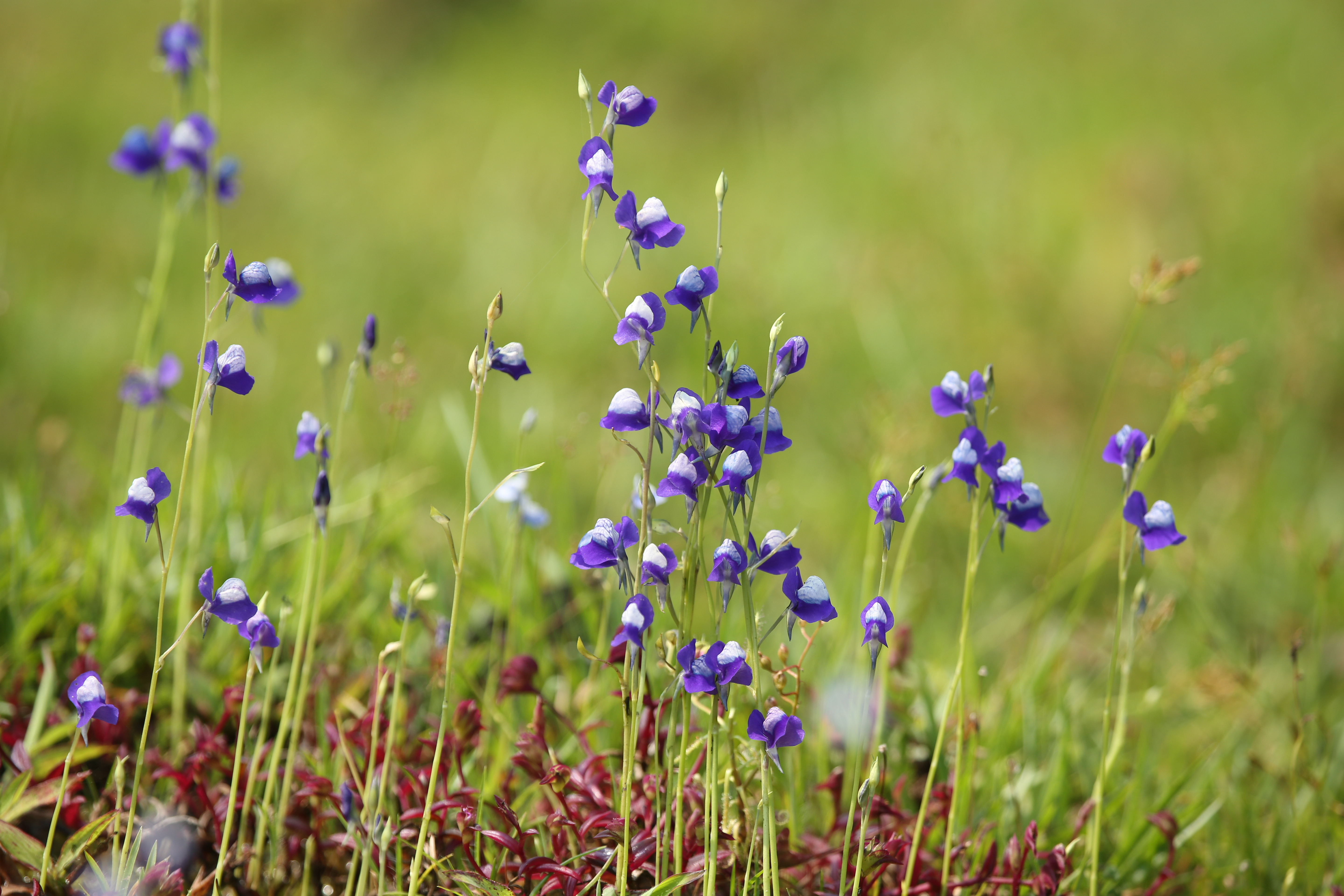 Utricularia reticulata is a medium to large-sized, probably annual carnivorous plant that belongs to the genus Utricularia